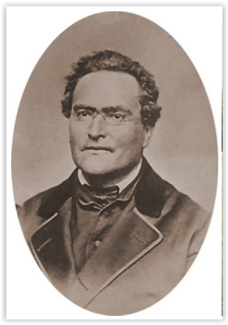 Portrait of father Christiaan J. A. Hoeken (1808-1851)